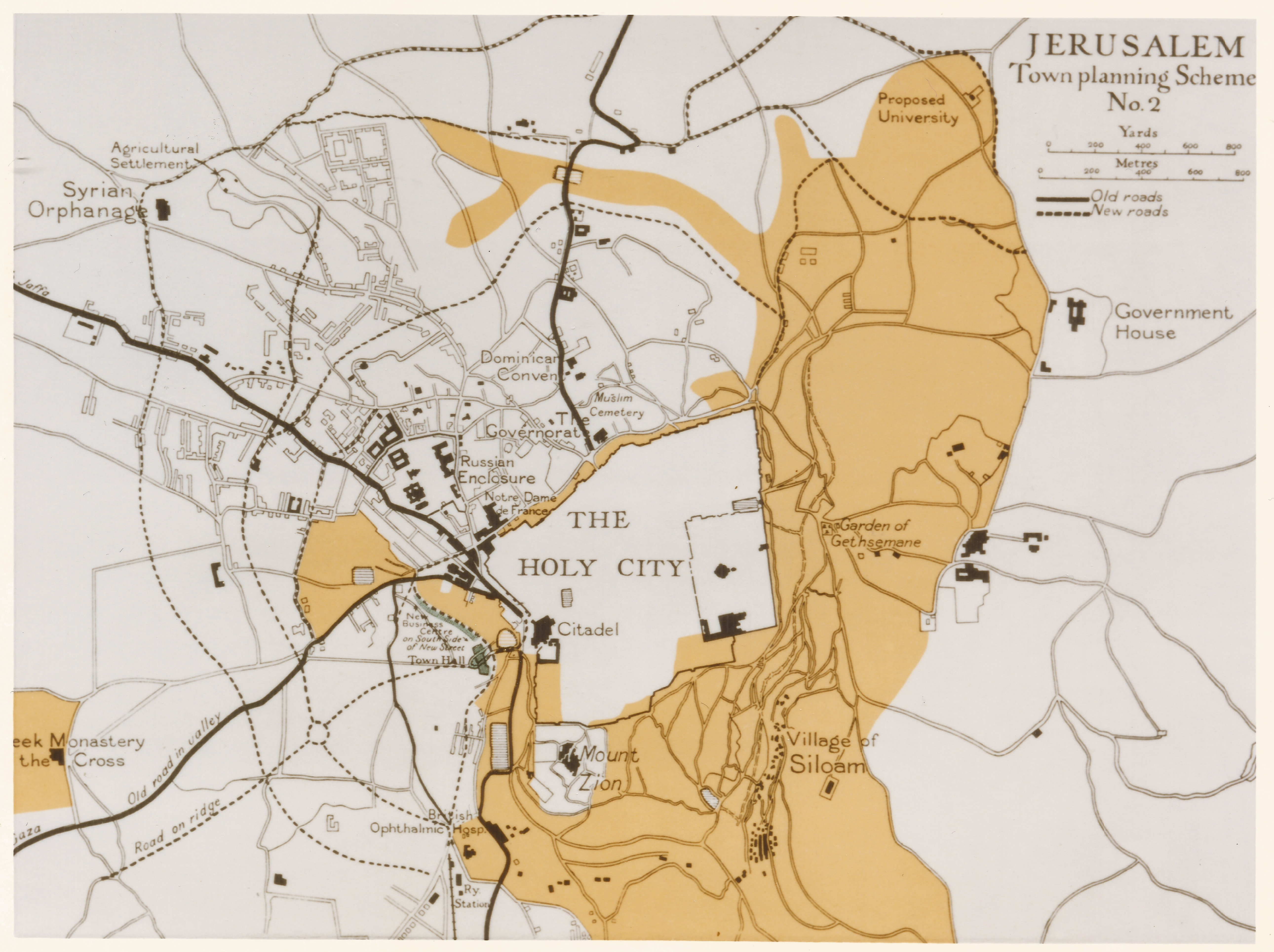 Urban master plan for Jerusalem prepared initially by Patrick Geddes in 1919, for the "Jerusalem Actual and Possible: A preliminary report on town planning and City improvements". Edited by Charles Robert Ashbee, for the Pro Jerusalem Council 1921